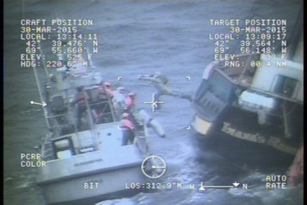 Crew member leaps off the Liana's Ransom during the rescue. Original caption: “A man leapt off the Canadian tall ship the Liana's Ransom during the rescue by the U.S. Coast Guard, east of Gloucester, Mass. (Courtesy U.S. Coast Guard)”